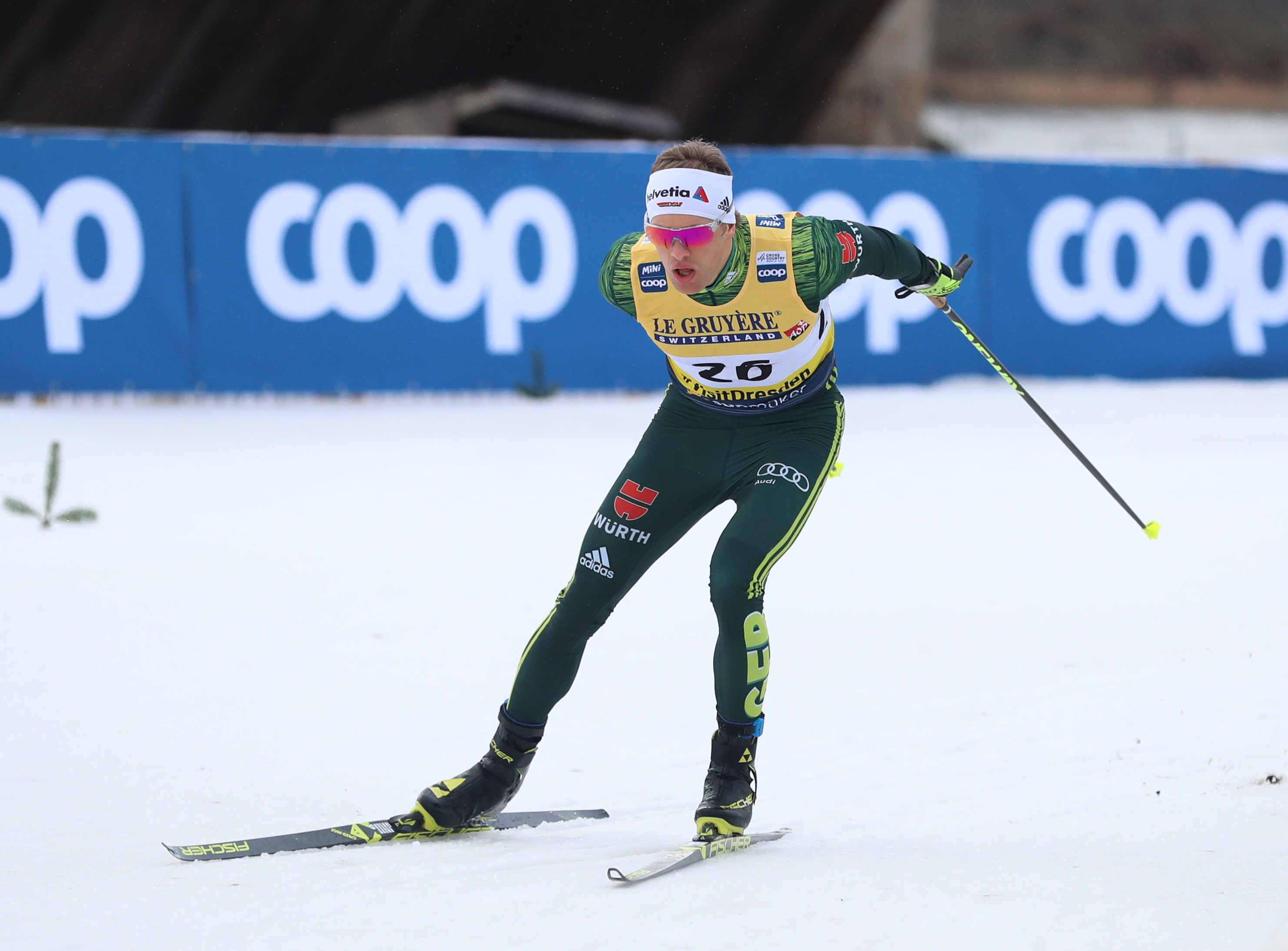 Men's Qualification at the FIS Cross-Country World Cup Dresden 2019 (1.6 km Free Sprint)